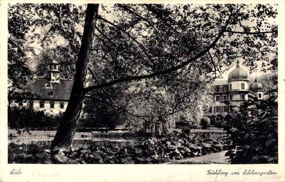 Lich castle and park around 1930.